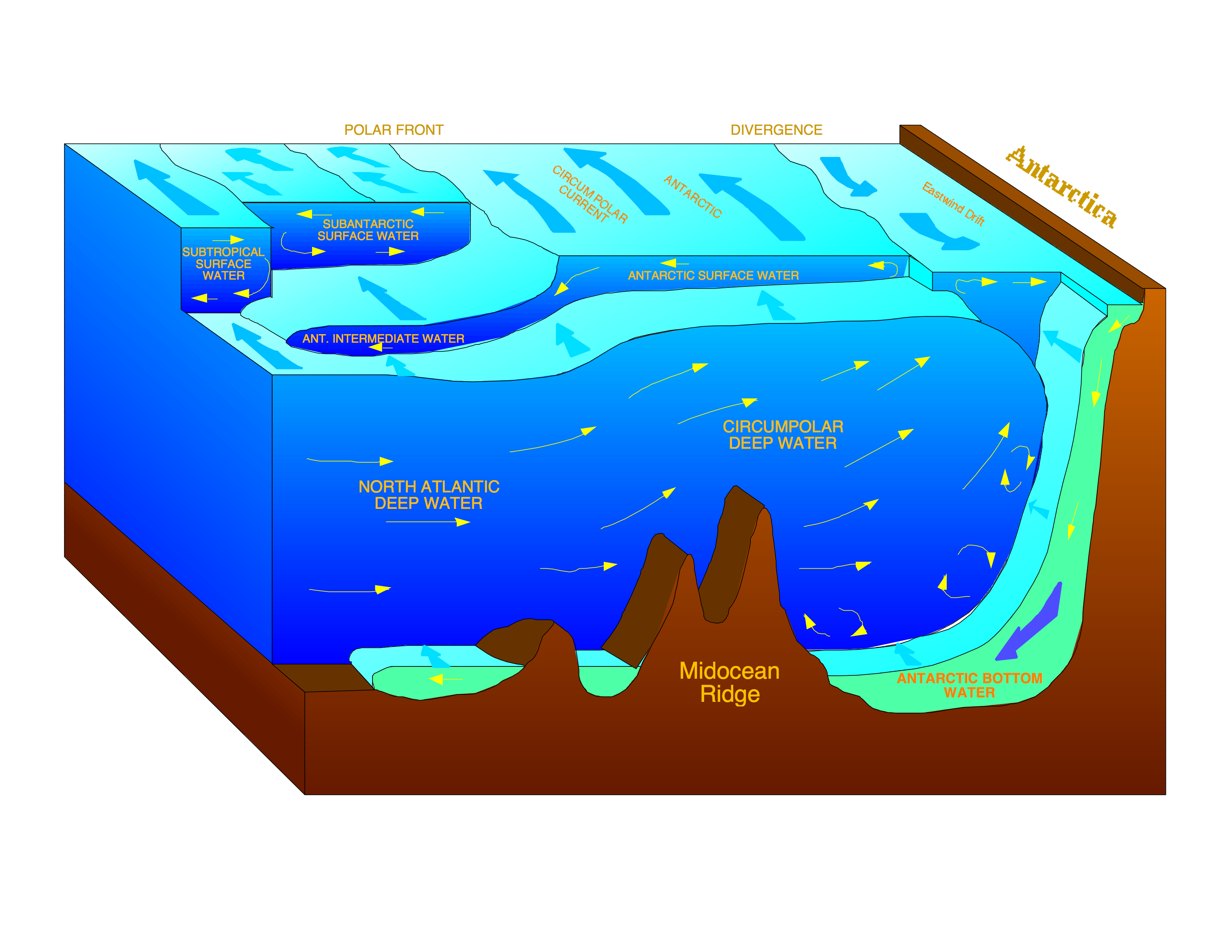 Water mass bodies of the Southern Ocean